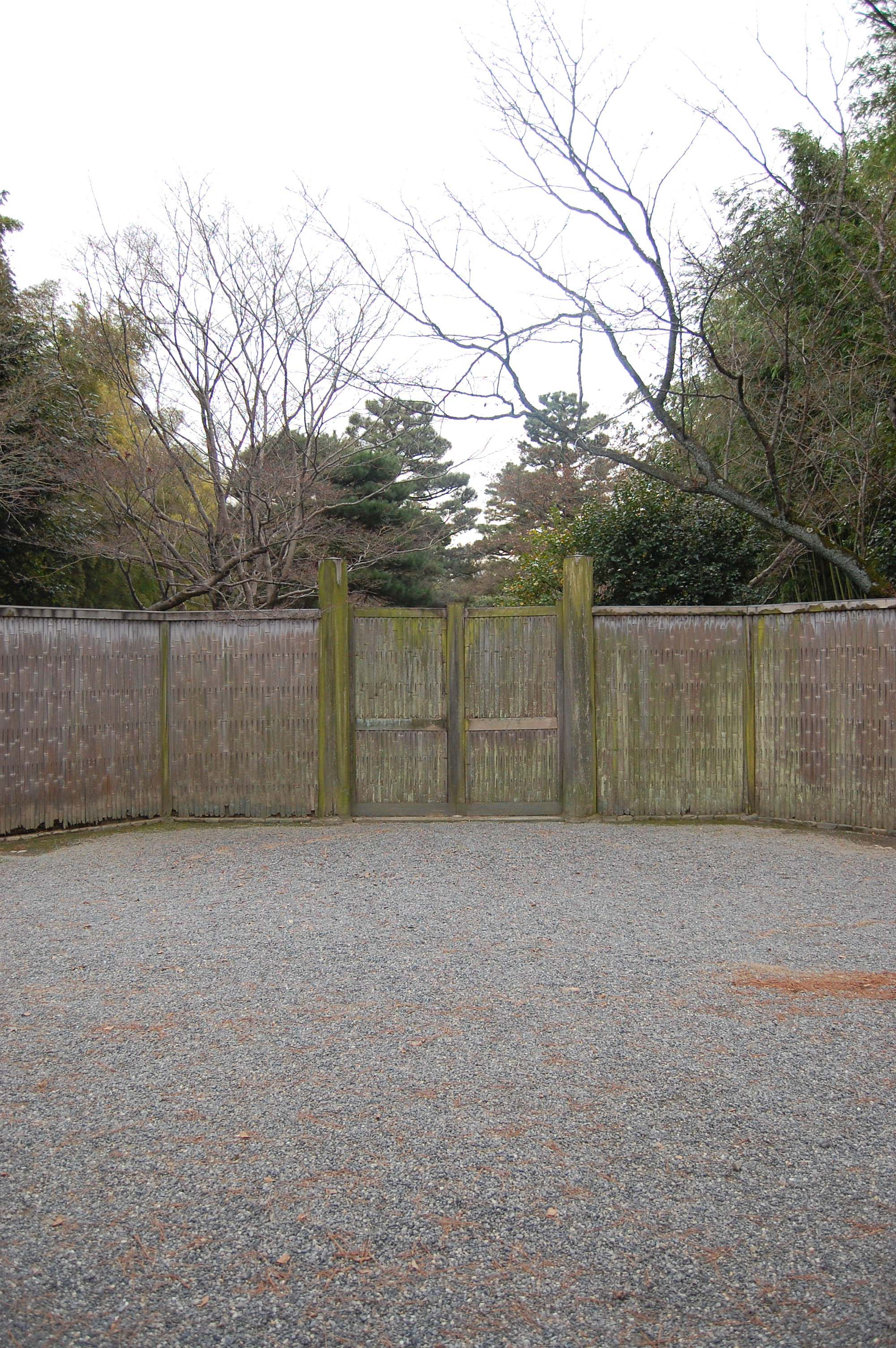 Main gate of the palace